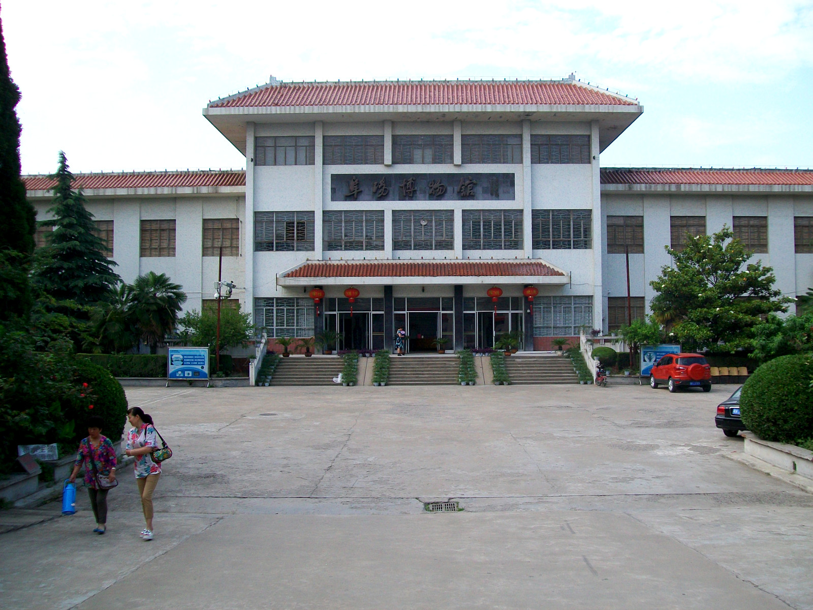 Museum in Fuyang city, Anhui province, China. Photo taken in 2015.